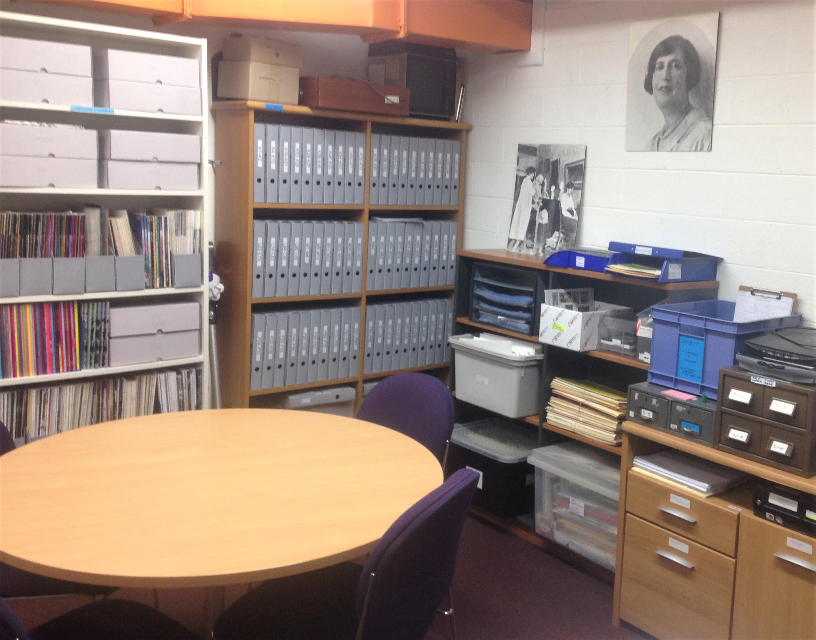 Library space at the Women's Art Register, Richmond Library, Victoria, Australia